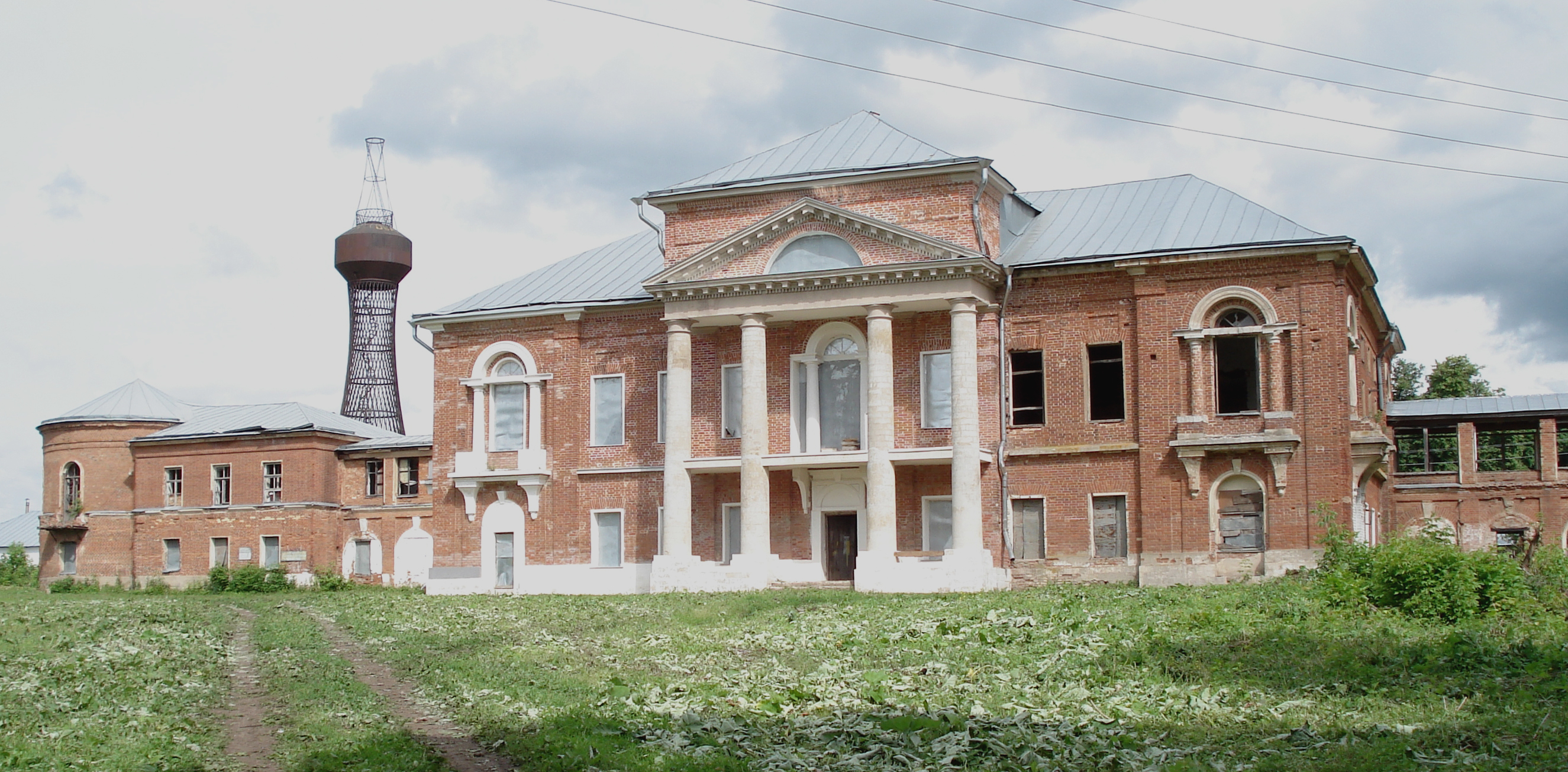 Polibino (Russian: Полибино) is a village (selo) in Dankovsky District of Lipetsk Oblast, Russia. A historical estate of Russian aristocrats Nechayevs is located there. The estate is composed of a palace, English park, regular gardens, ponds, and more. On the grounds of the estate the world's first hyperboloid structure—the steel open-work lattice hyperboloid tower—is located. The Great Russian engineer and architect Vladimir Shukhov was the first in the world to invent and use in construction hyperboloid towers. For the 1896 All-Russia industrial and art exhibition in Nizhniy Novgorod V.G.Shukhov built the steel lattice 37-meter[citation needed] tower, which became the first hyperboloid structure in the world. The astonishing hyperboloid stell gridshell caused delight of the European specialists. The English magazine "The Engineer" published an article about the Shukhov tower at the 1896 exhibition in Nizhniy Novgorod - "The Nijni-Novgorod exhibition: Water tower, room under construction, springing of 91 feet span", The Engineer, 1897, № 19.3. - P. 292-294: ill. After the exhibition had closed, the openwork tower of rare beauty was bought by the well-known Maecenas of that time Yu.S. Nechaev-Maltsov and placed in his estate Polibino, Lipetsk Oblast, where it has preserved until now under the state protection.